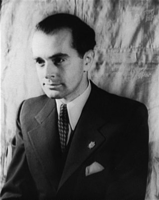 Hans Jaray. Creator: Carl Van Vechten, 1880-1964, photographer. Created/Published: November 19th, 1940. Repository: Library of Congress Prints and Photographs Division Washington, D.C. 20540 USA. Public Domain.